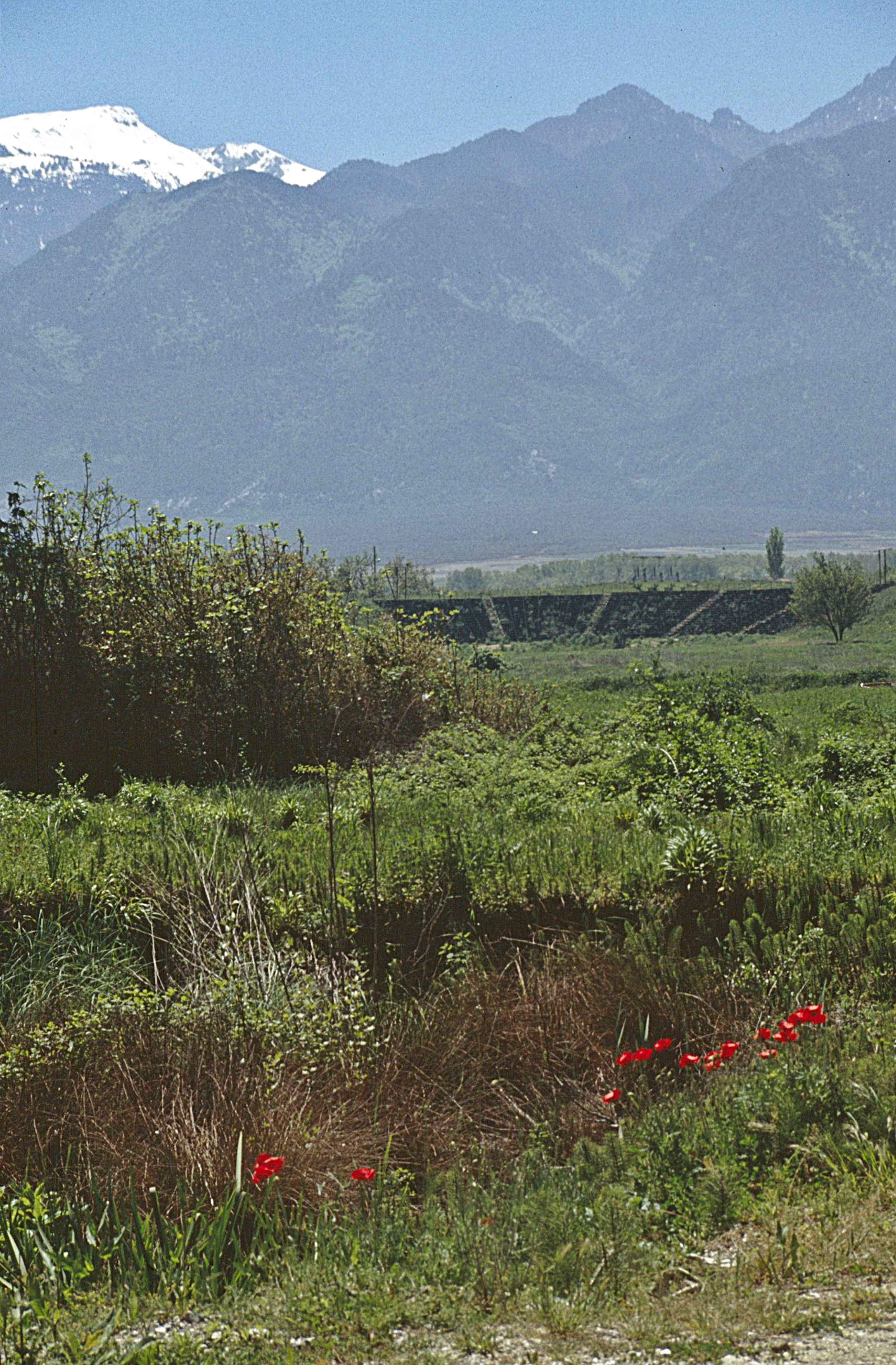 hellenistisches Theater in Dion; Olymp